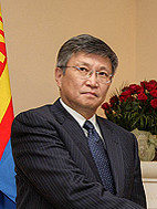 ULAN BATOR. Prime Minister of Mongolia Sanjaa Bayar.